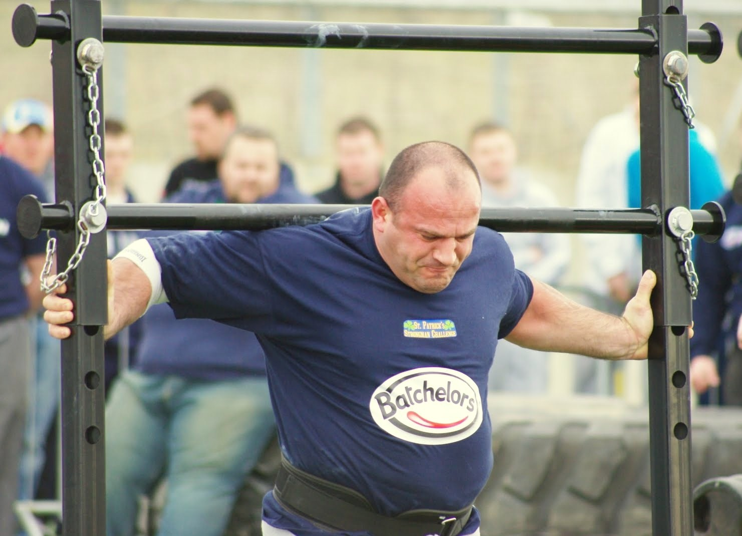 Jimmy Marku - a strength athlete from England at the Yoke Walk.